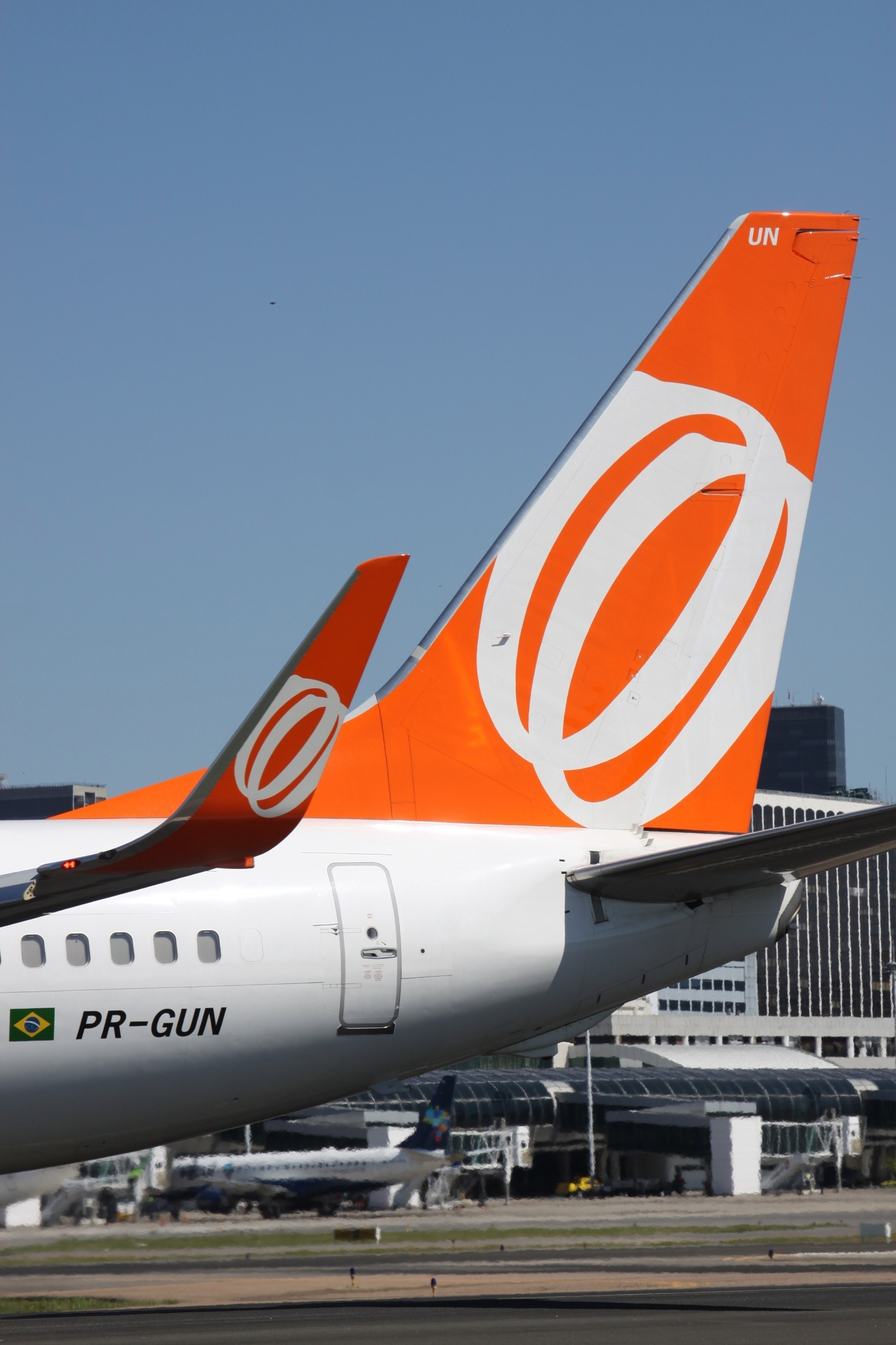 At Santos Dumont